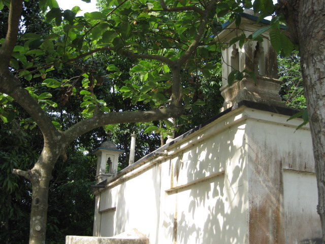 Wester facade of the masjid